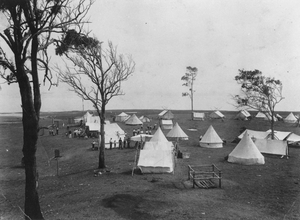 Tents on the foreshore at Wellington Point, ca. 1911. Variety of tents pitched by the campers at Wellington Point. Possibly Christmas 1911.